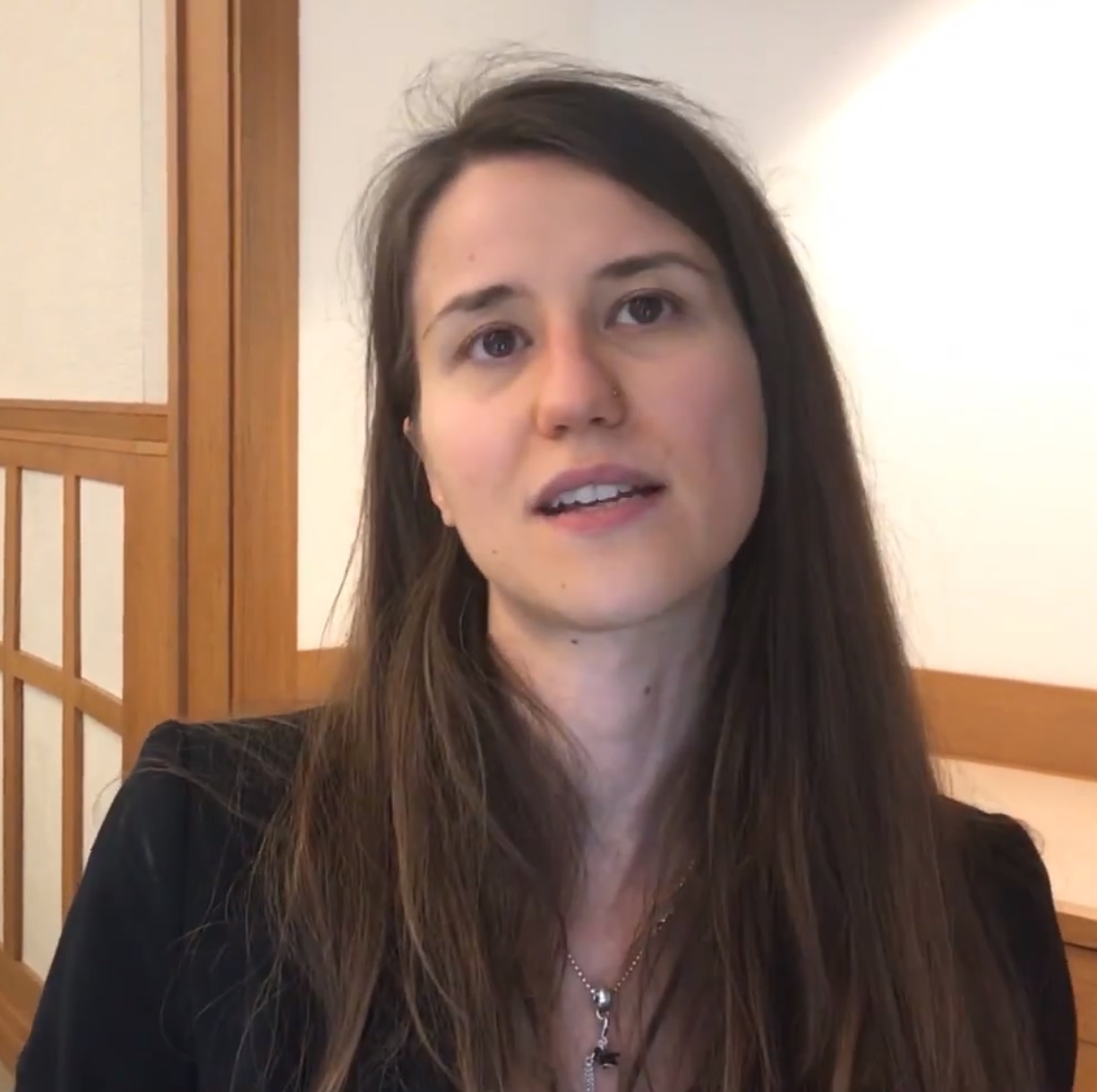 Dr. Sandra Wachter on Autonomous Vehicles and Risks to Privacy Just as self-driving cars pose risks to safety in the real world if not carefully tested and considered, they also pose potential risks to privacy that should concern engineers, policymakers, and users - says Dr. Sandra Wachter of the Oxford Internet Institute. Learn more about our work on the Ethics & Governance of Artificial Intelligence at